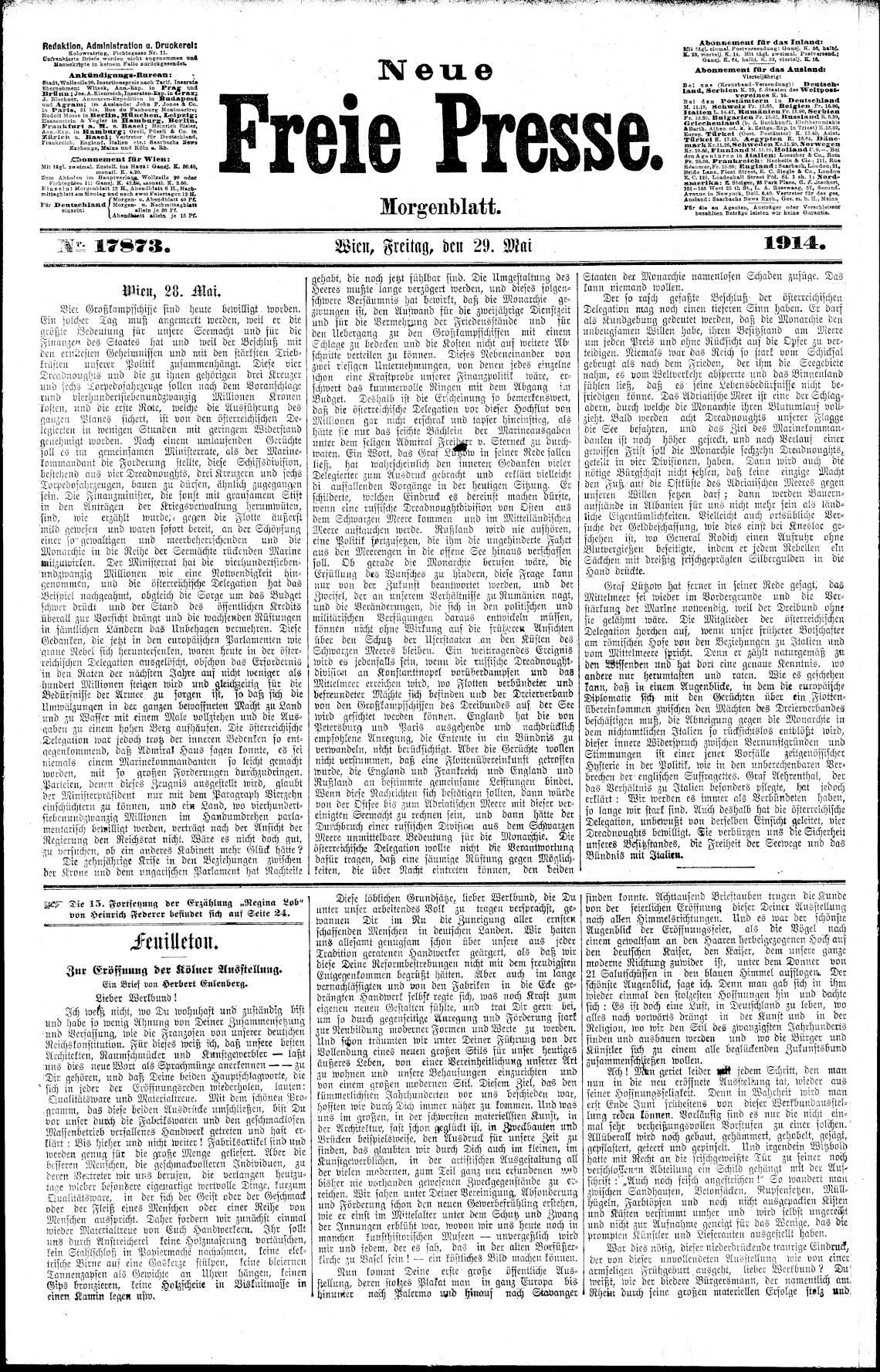 The front page of the Vienna newspaper Neue Freie Presse, 29 May 1914.